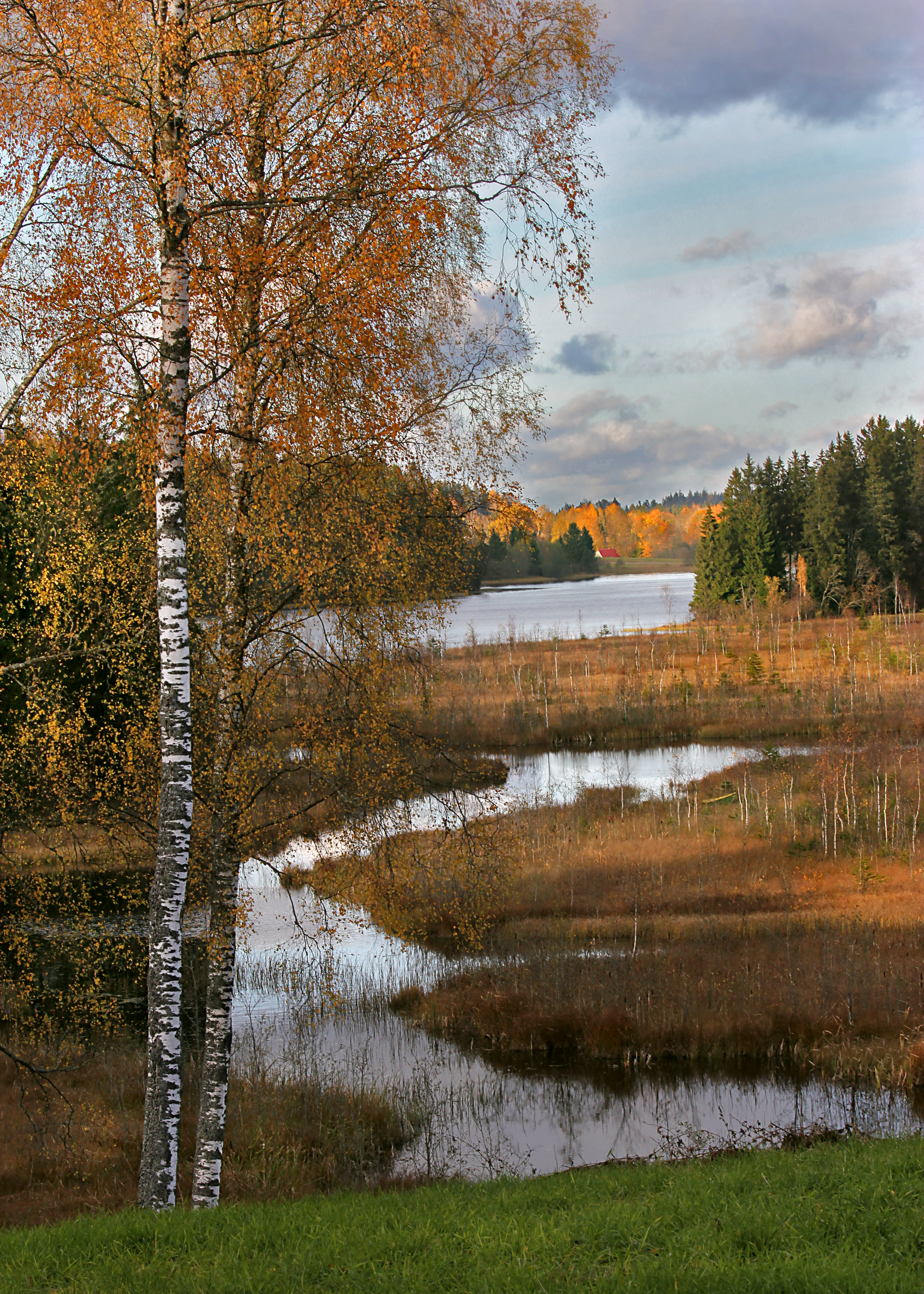 Vaskna is a lake in Southern Estonia